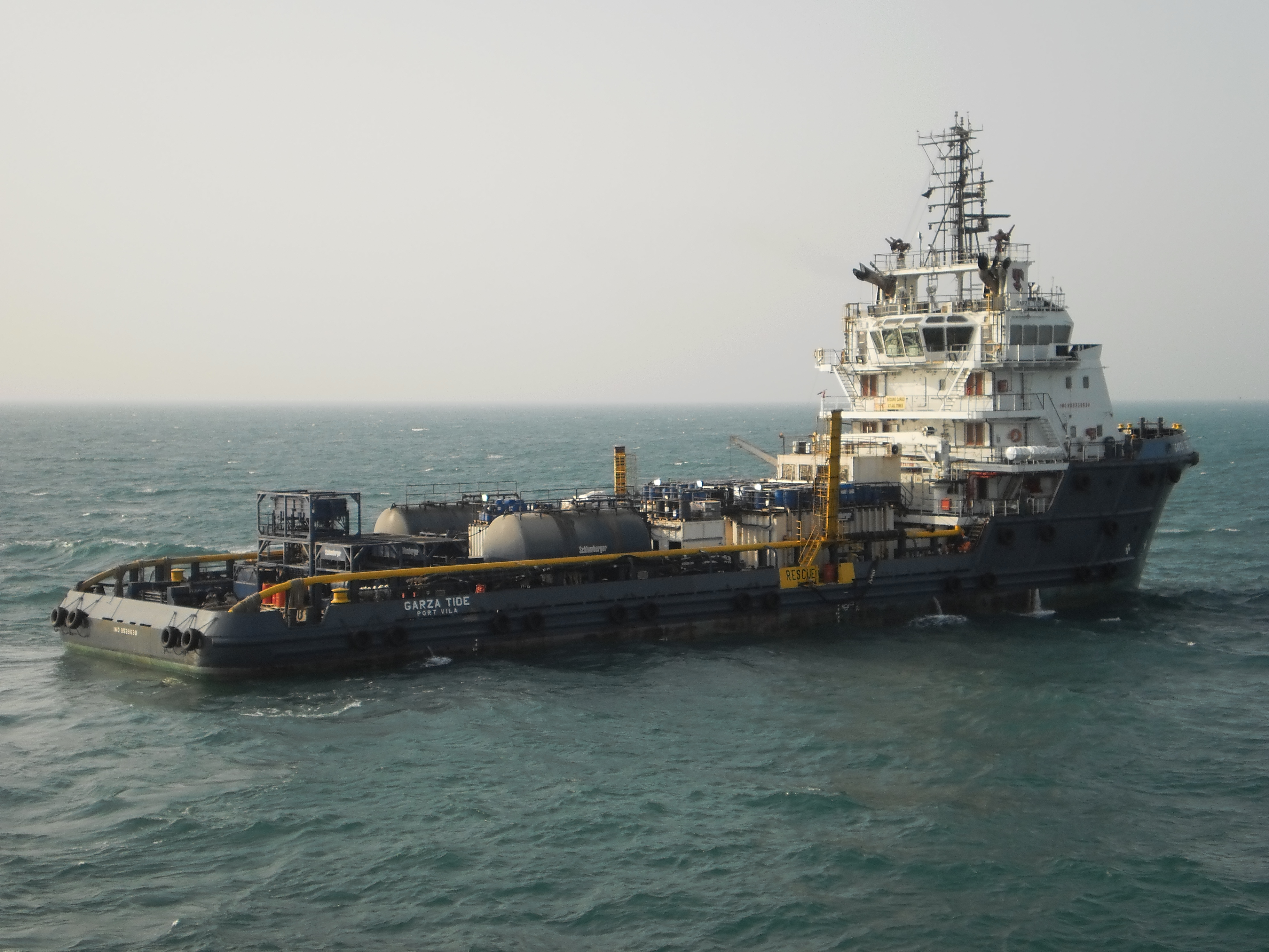 Well stimulation vessel Garza Tide